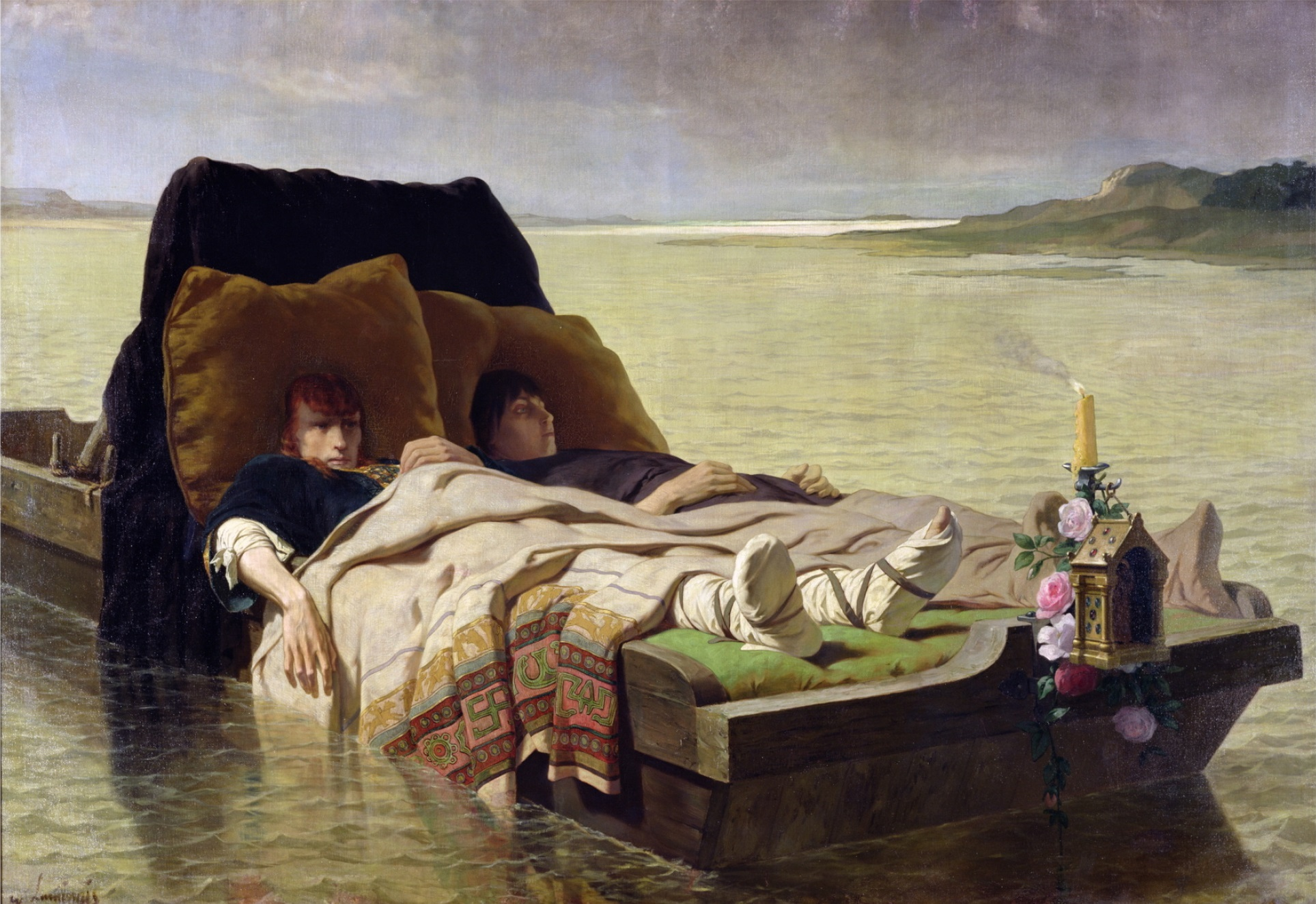 two sons of Clovis II, hamstrung for revolting against their mother Bathilde